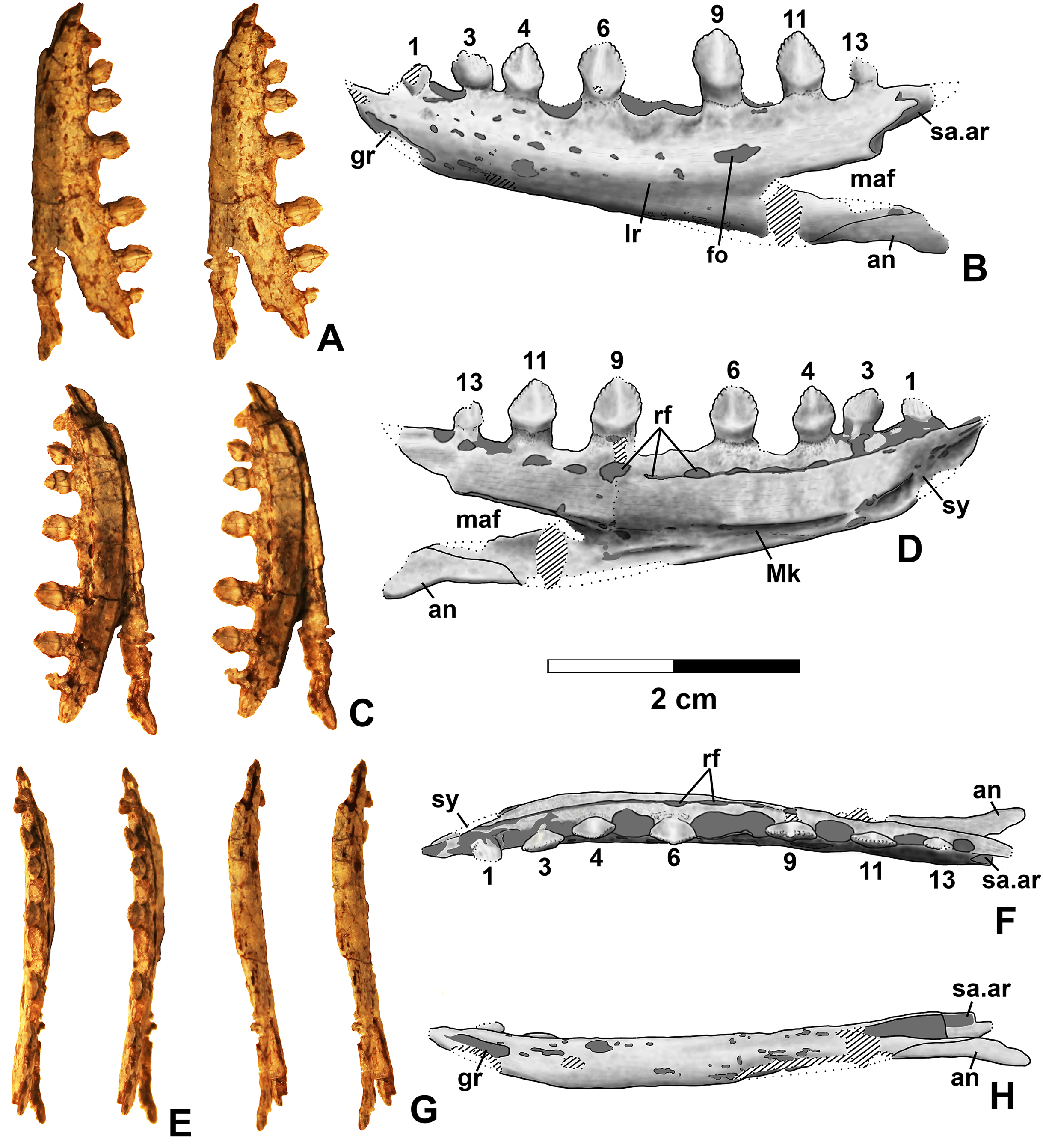 Figure 10: Kwanasaurus williamparkeri DMNH EPV.63136 left dentary. (A) Stereopairs of lateral view, (B) interpretive drawing of same, (C) stereopairs of medial view, (D) interpretive drawing of same, (E) stereopairs of dorsal view, (F) interpretive drawing of same, (G) stereopairs of ventral view, (H) interpretive drawing of same. Hatching indicates broken bone surface, dotted lines indicate broken bone edge. Dark gray areas filled with matrix. Scale bars = 2 cm. an = angular fo = foramen gr = groove lr = lateral ridge maf = mandibular fenestra Mk = Meckelian groove rf = replacement foramina sa.ar = articular surface for the surangular sy = symphysis